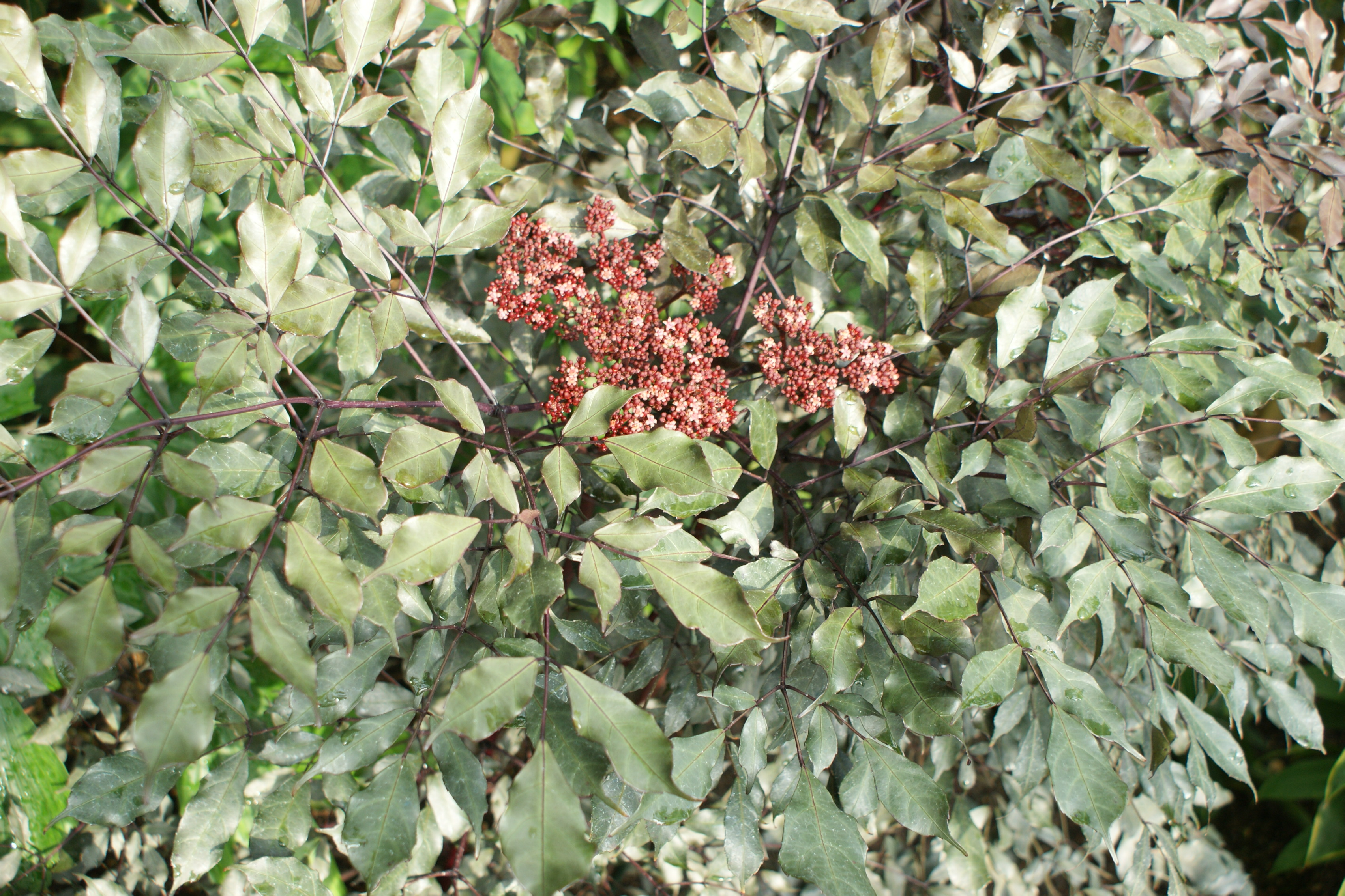 Leea rubra. Botanical Garden in Berlin Dahlem